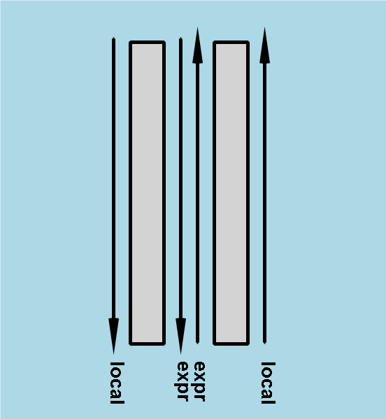 NYC Subway station layout vc typical island 4 tracks